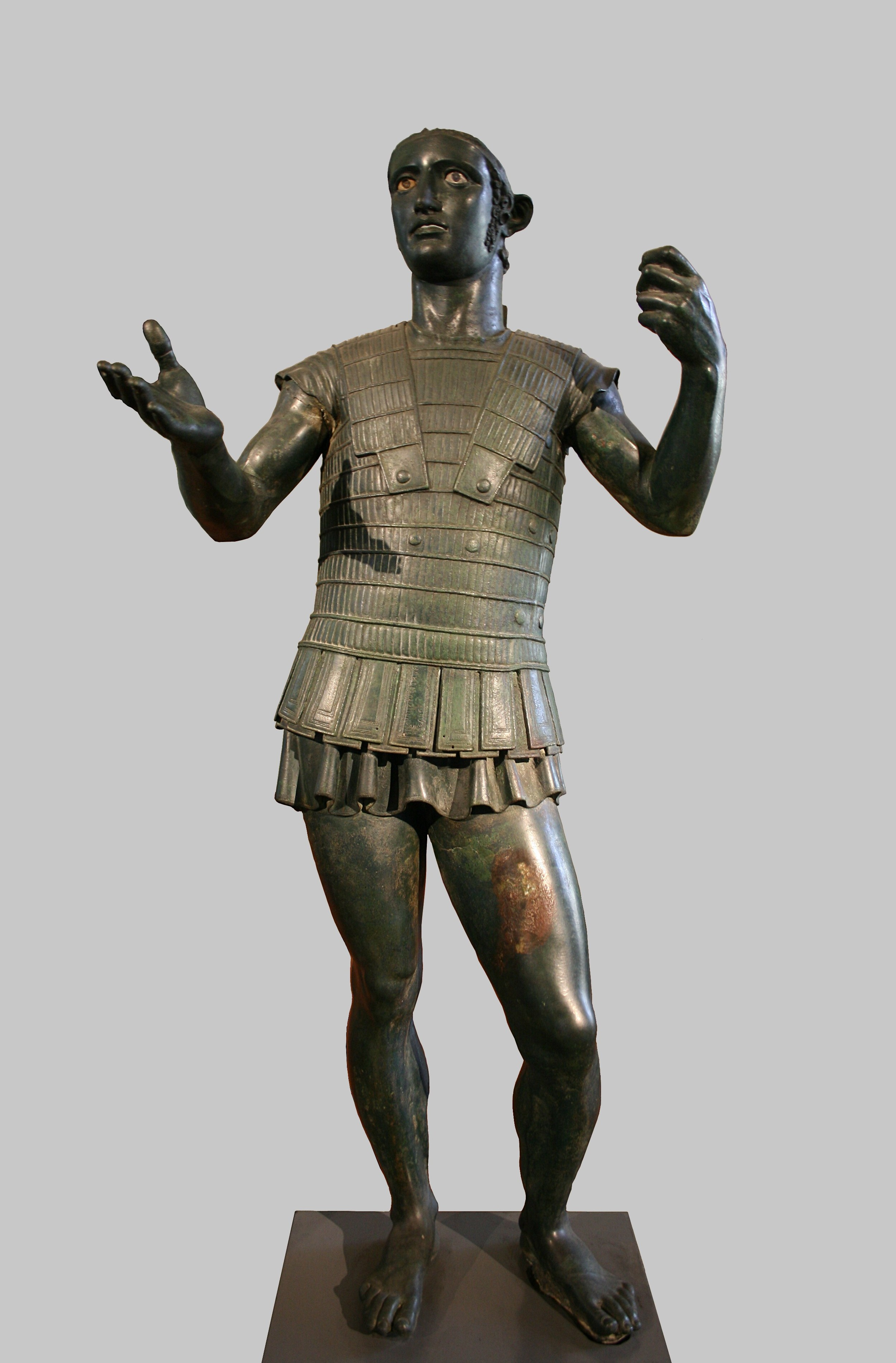 Etruscan bronze statue of a warrior, nearly life-size, product of a workshop in Orvieto. The warrior wears a cuirass and once held in his right hand a patera and a spear in the left. The inscription in etruscan letters states that Ahal Trutitis dedicated the statue.